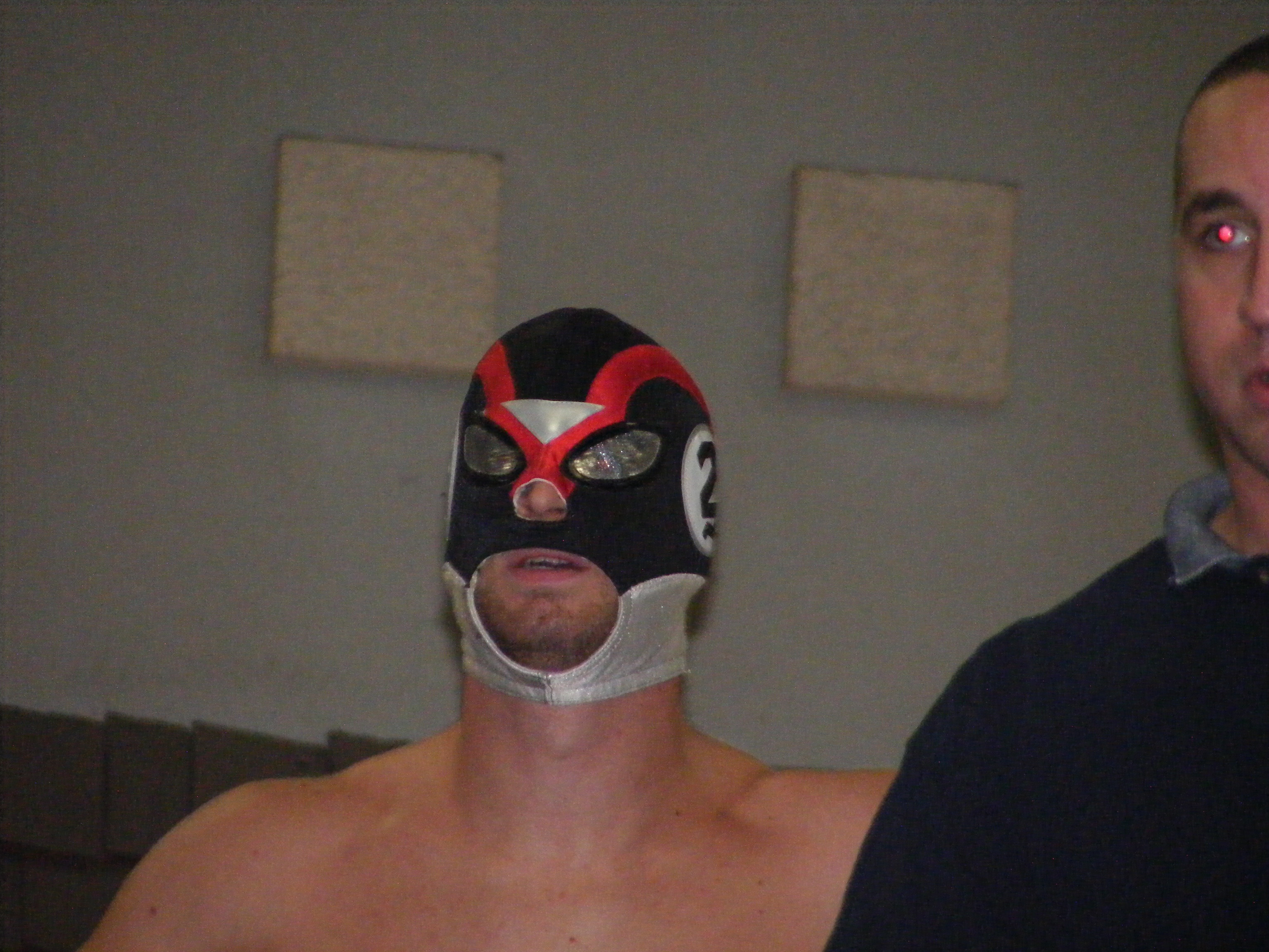 Professional wrestler Player Dos at a Chikara show